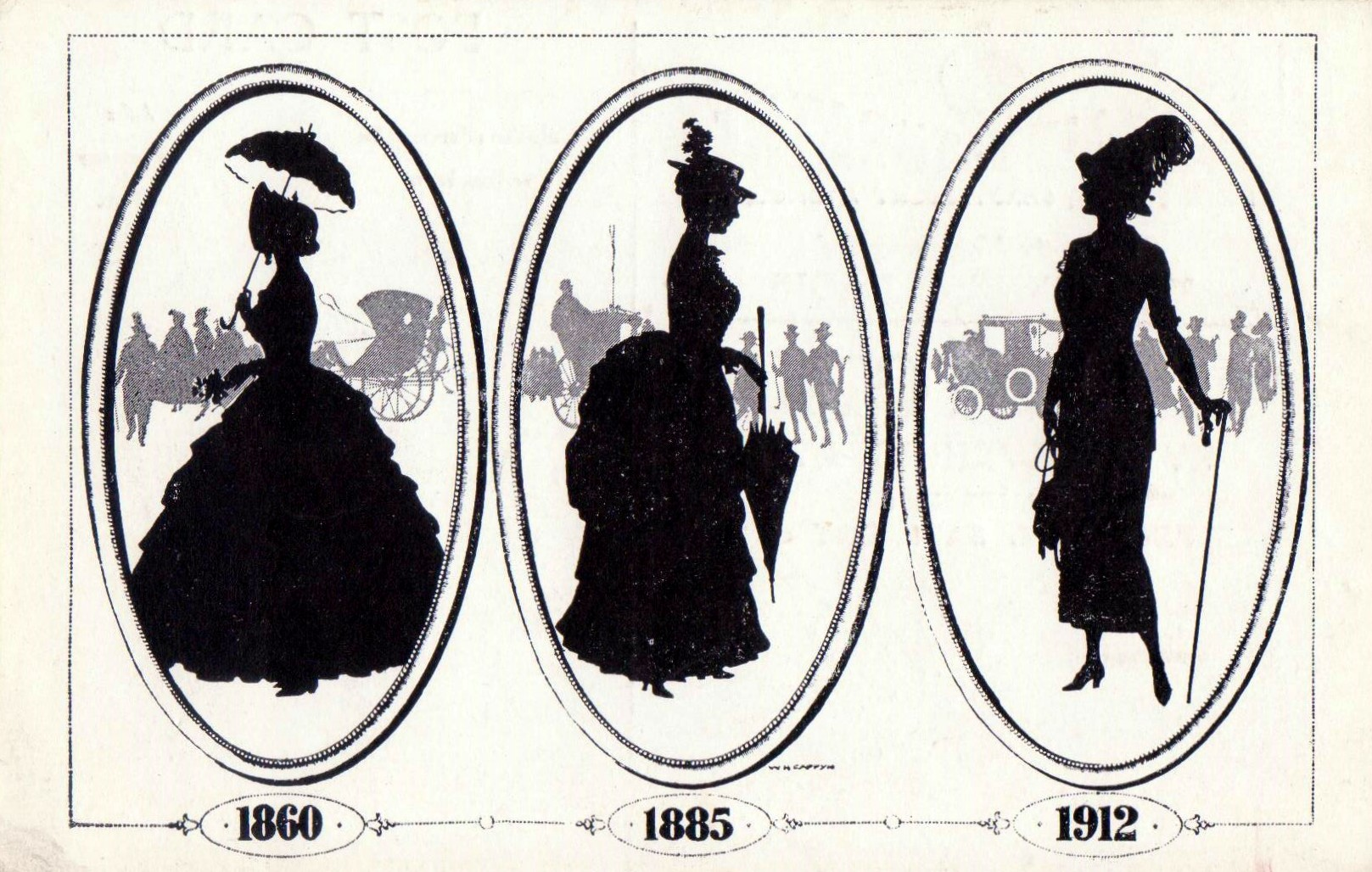 London. Royalty Theatre . Advertising postcard from 1912 (obverse). Publisher: J. Miles & Co. London.